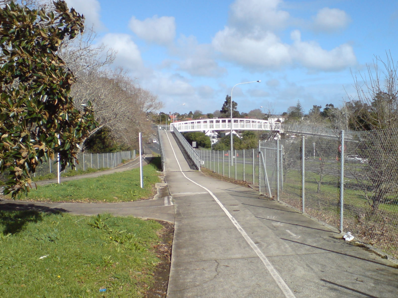 A cycling bridge over Great North Road, part of the Northwestern Cycleway, Point Chevalier, Auckland City, New Zealand.